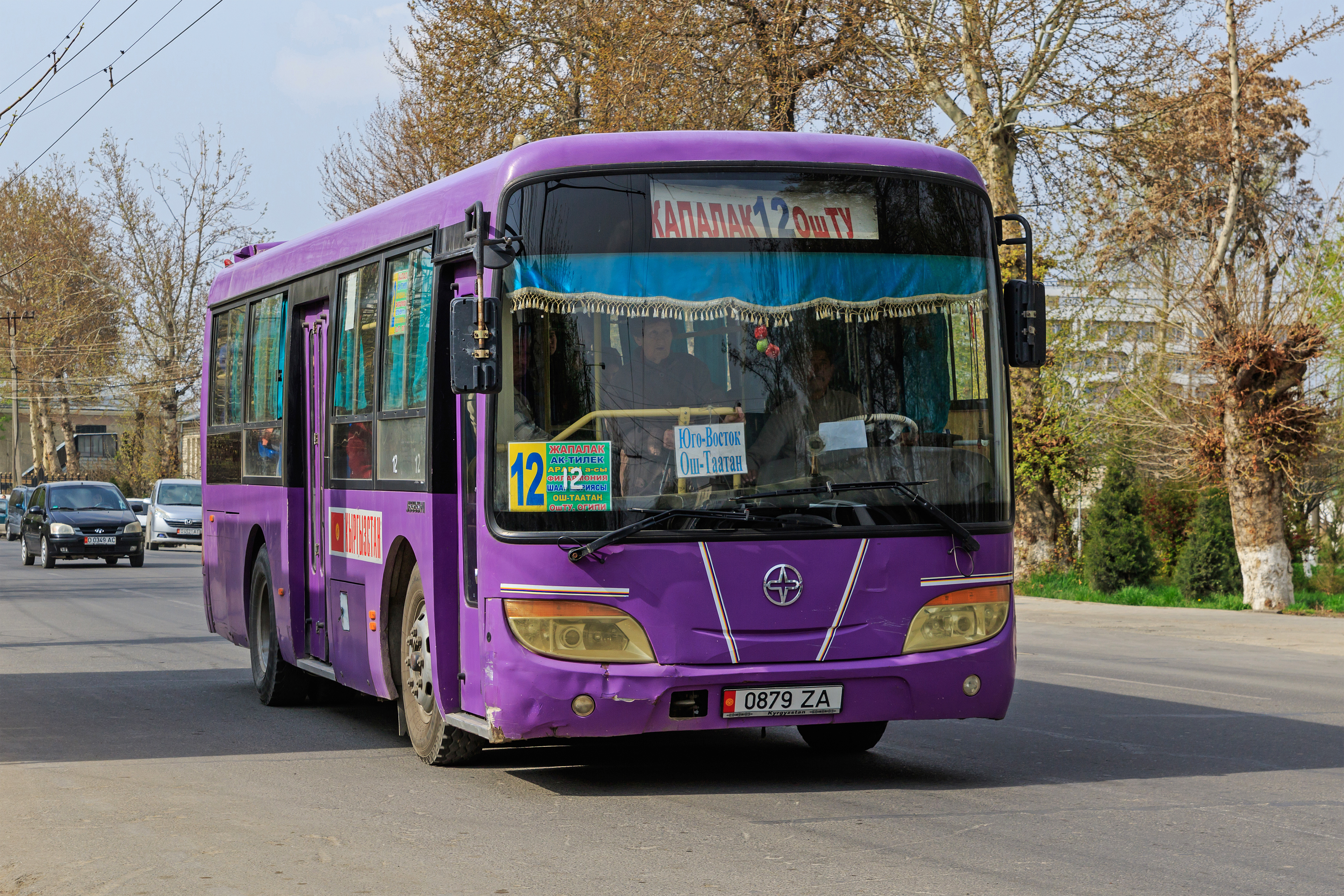 Bus in Osh, Kyrgyzstan